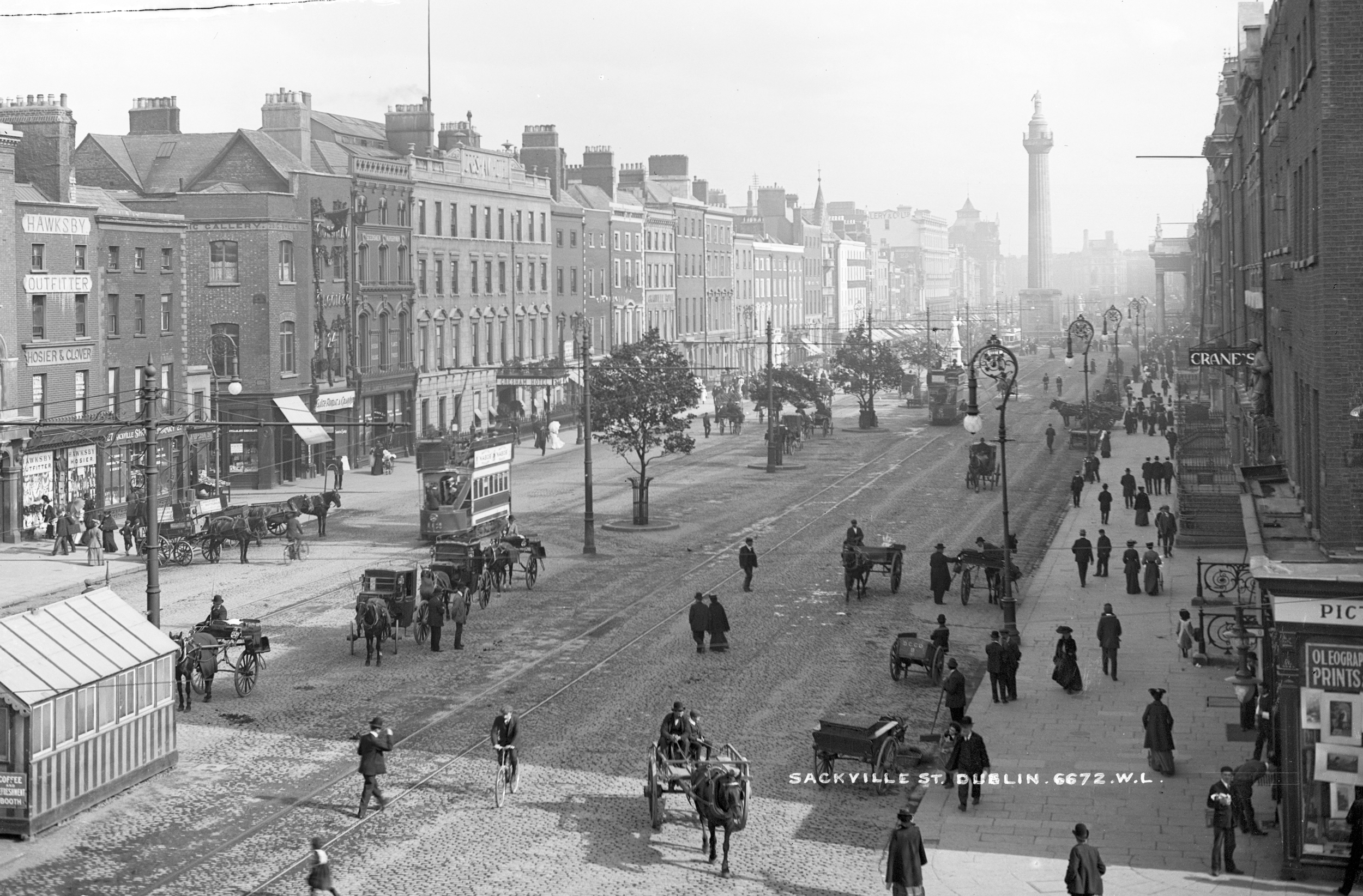 Parts of this photo may not be pin sharp, but it's a great high view along Sackville Street (now O'Connell Street) in Dublin, with lots of details to feast on… Photographer: Almost certainly Robert French of Lawrence Photographic Studios, Dublin Date: Between 1903 and early 1908 NLI Ref.: L_CAB_06672